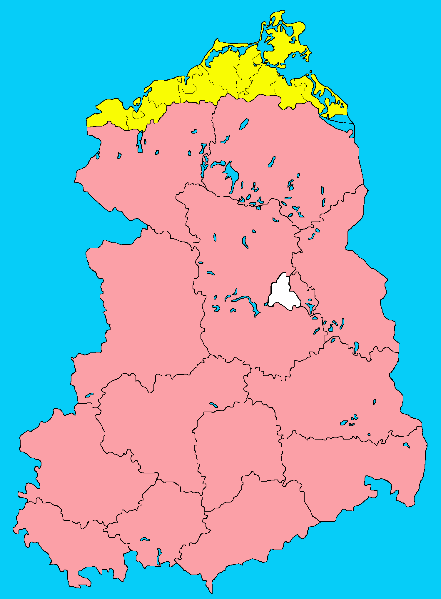 Map of the District of Rostock in the German Democratic Republic (East Germany). The districts existed between 1952 and 1990. All of the district's area belongs now to the State of Mecklenburg-Vorpommern.